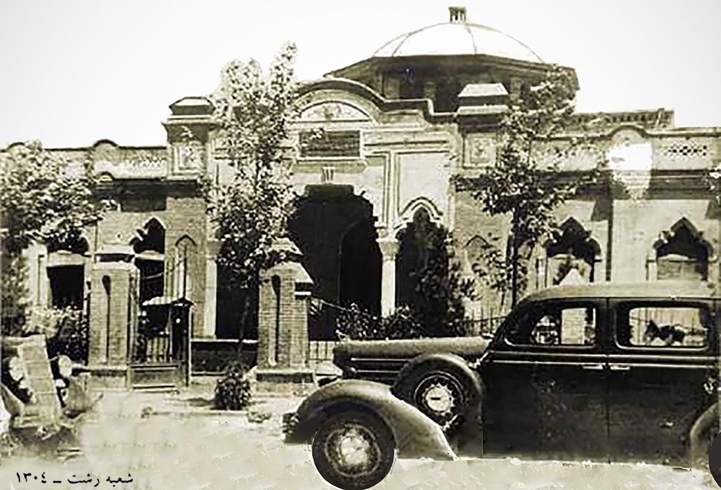 Rasht Sepah bank 1925, It is an Iranian Bank that Its first branch, in Rasht, opened 1925.